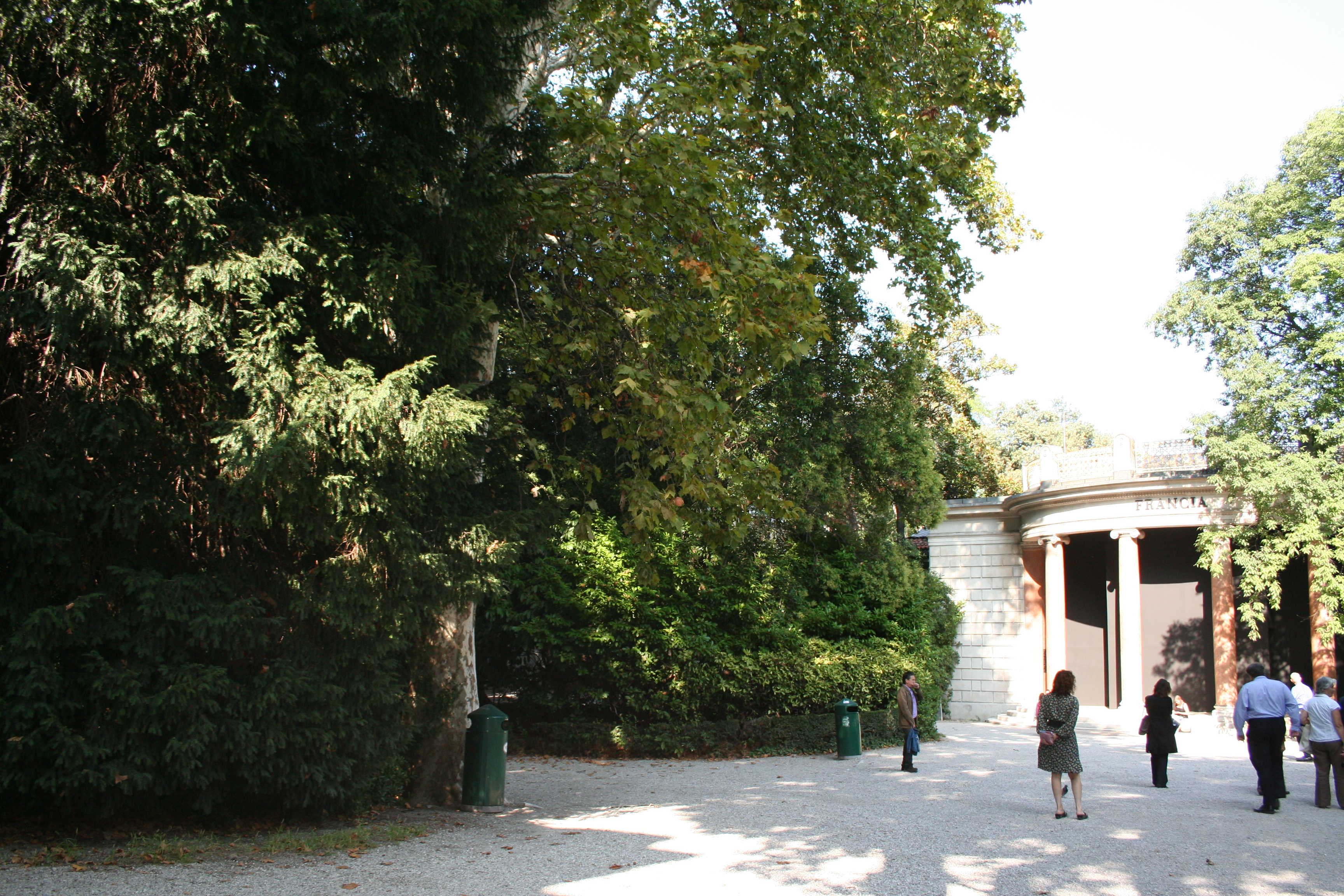 The French pavilion, Giardini, 2009